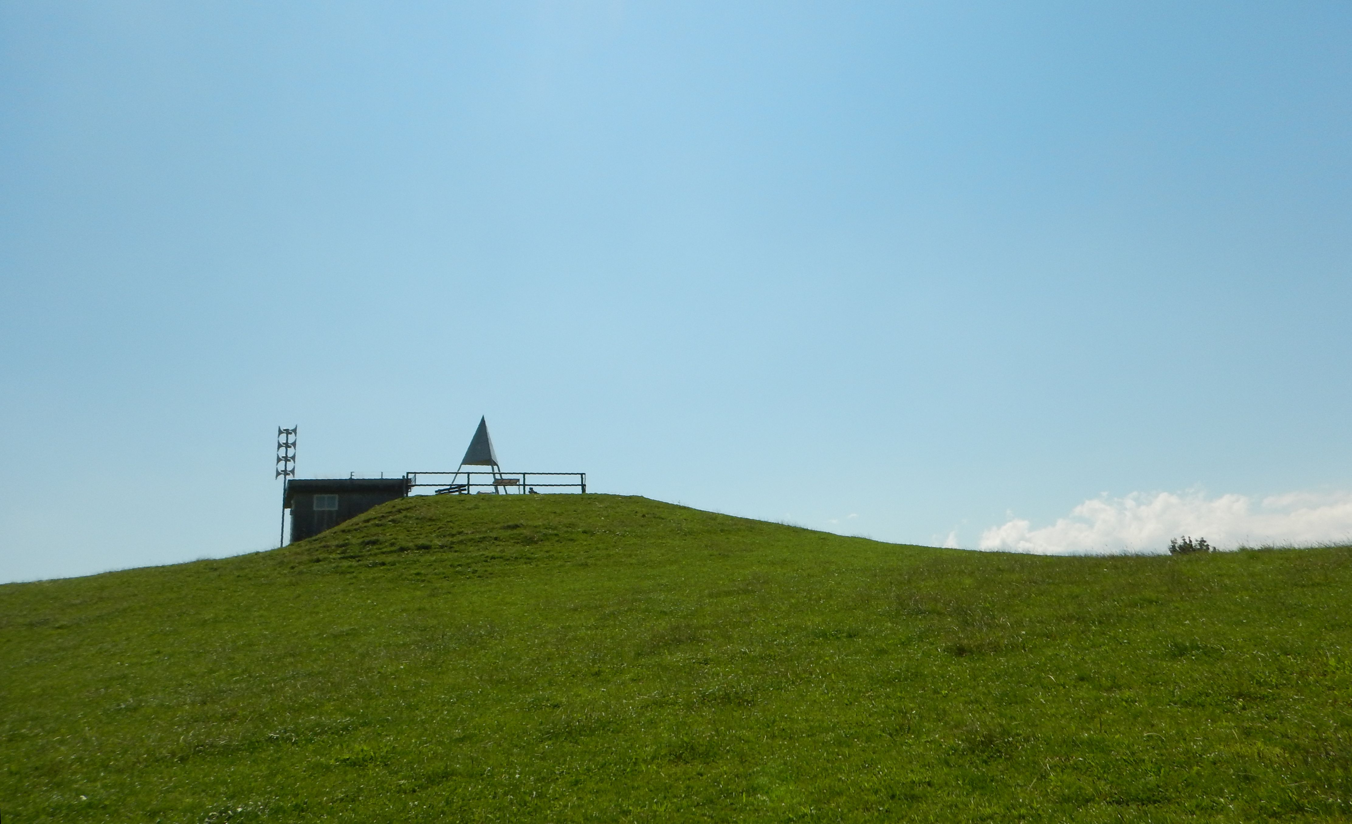 View onto memorial for Dr. h.c. Eduard Imhof on Lueghubel in Fahrni municipality, Switzerland.